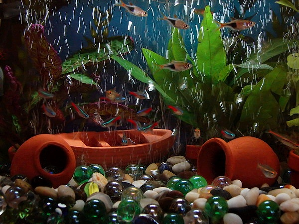 Small Aquarium with Paracheirodon innesi (neon tetra), Trigionostigma heteromorpha and Hemigrammus erythrozonus